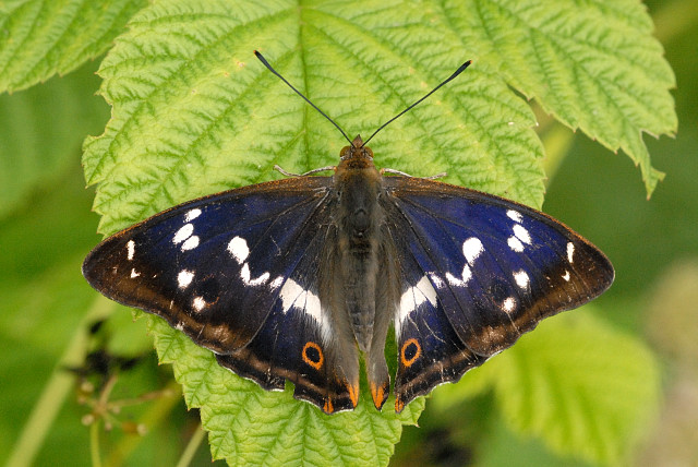 Apatura iris from Commanster, Belgian High Ardennes .